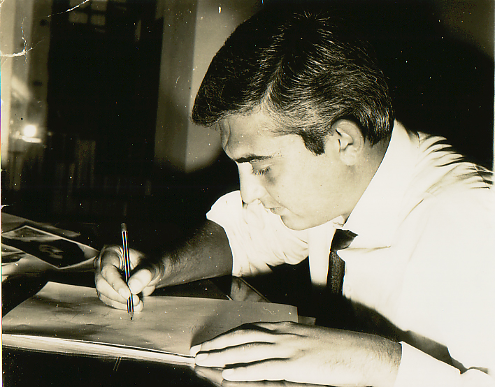 Mahmoud Kahil Early years 1960s